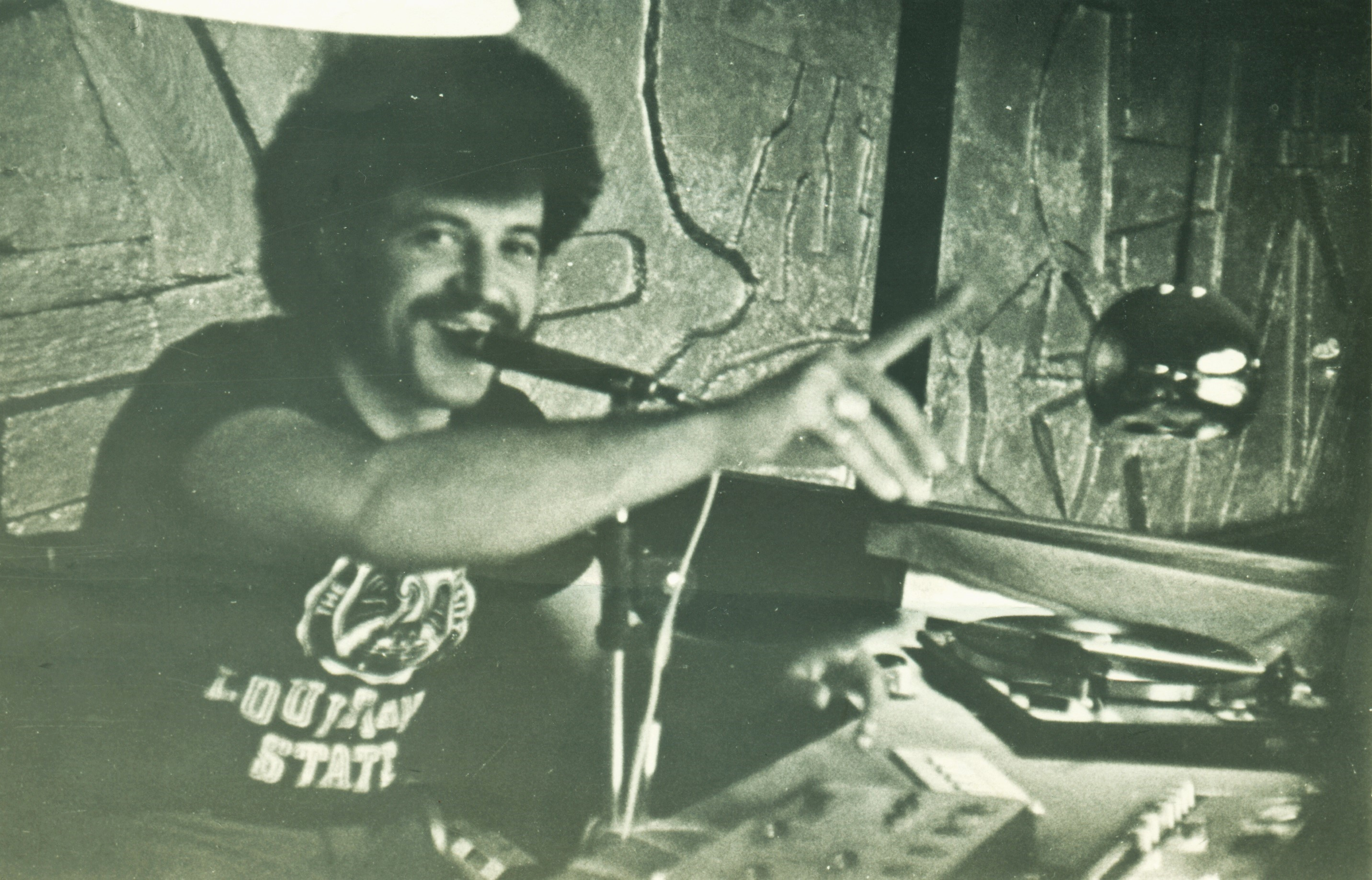 Želimir Altarac Čičak - Poreč, Plava laguna 1972